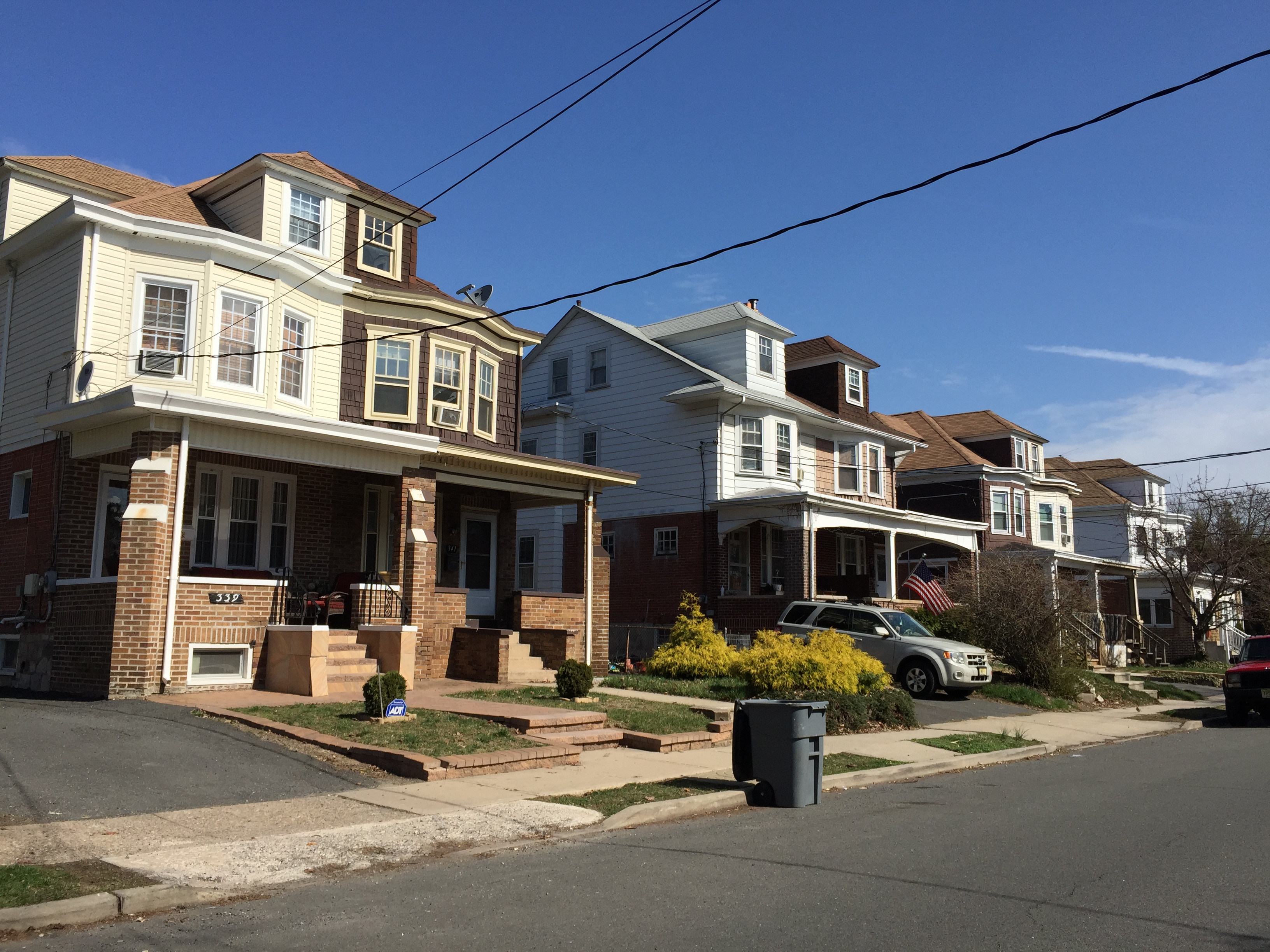 Homes along Hillcrest Avenue in the Hillcrest neighborhood along the border of Trenton and Ewing, New Jersey